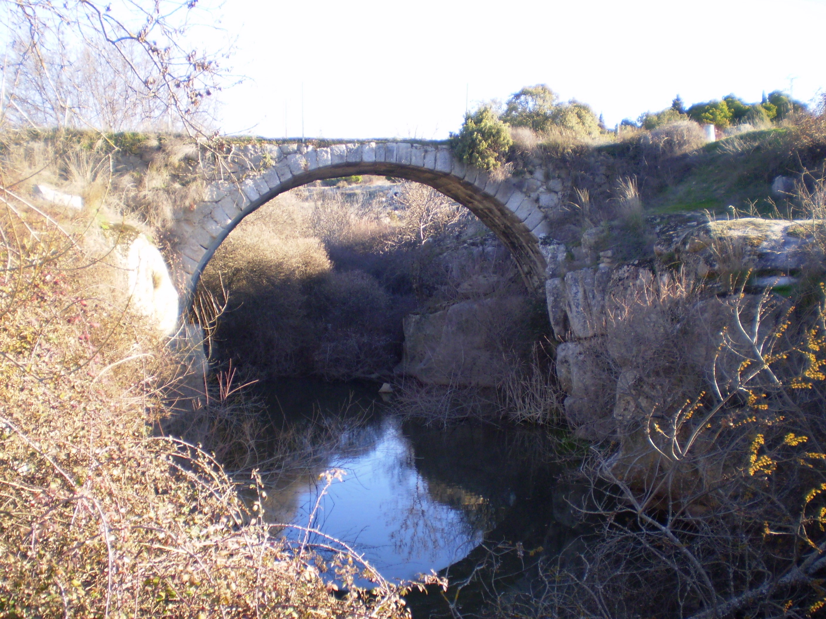 Batán Bridge over Manzanares River. Colmenar Viejo. Community of Madrid, Spain